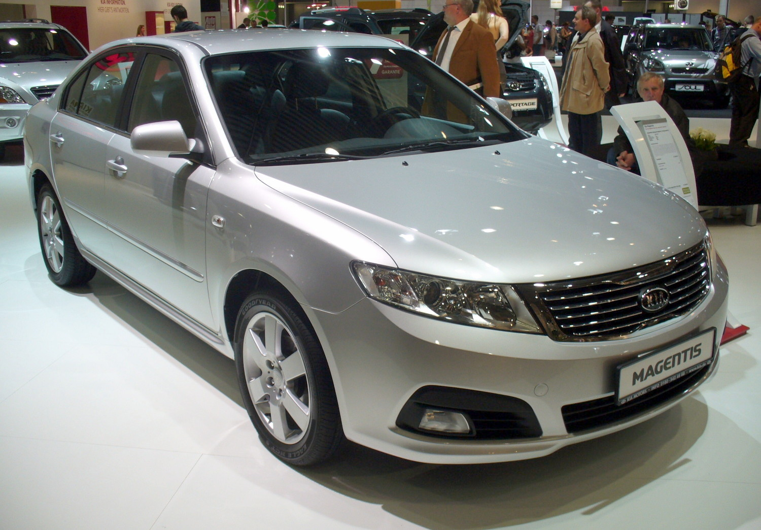 Kia Magentis Facelift